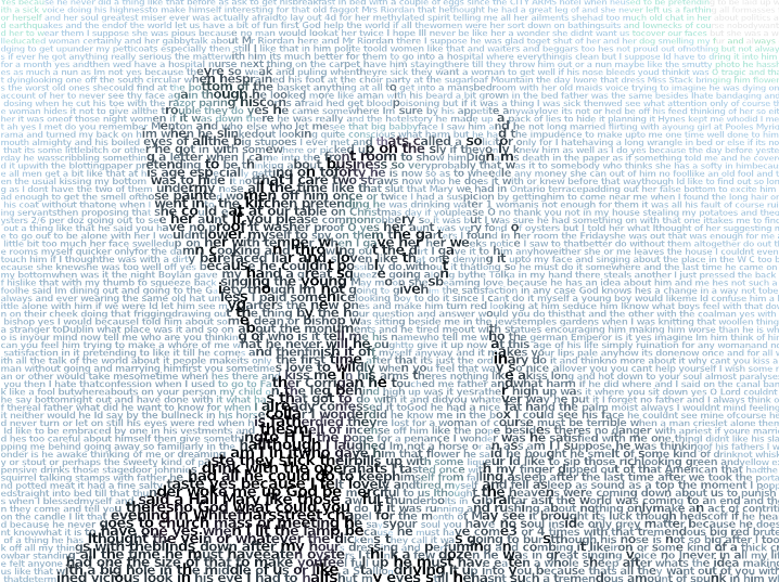 James Joyce, textorized with an excerpt from Ulysses